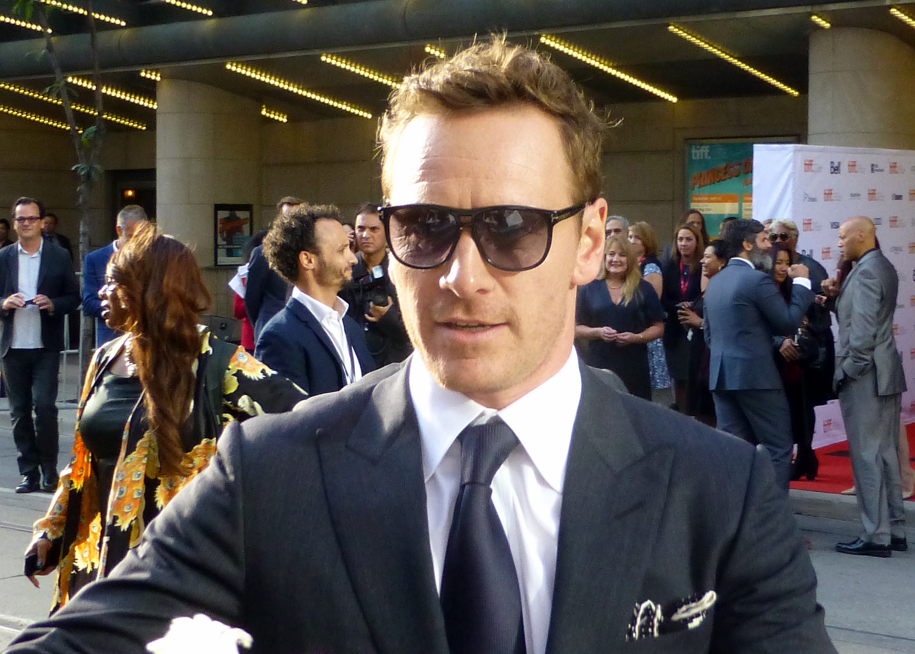 Michael Fassbender at the premiere of 12 Years a Slave, 2013 Toronto Film Festival